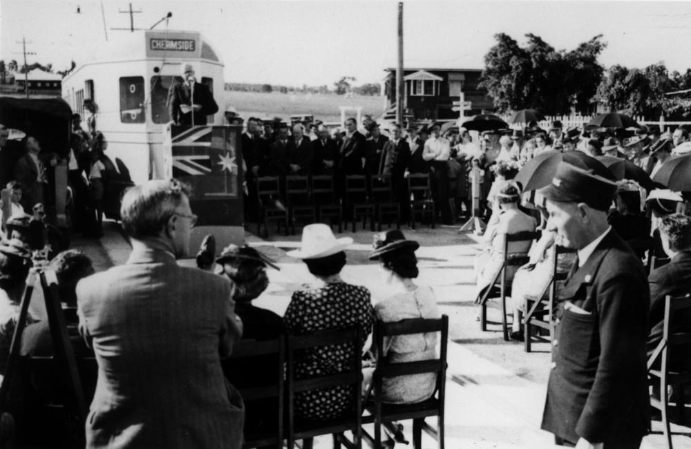 Opening of the tramline to Chermside in Brisbane, Australia. The paddock behind the tram is the site of the Chermside drive-in shopping centre.